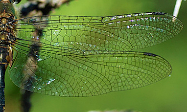 Somatochlora flavomaculata